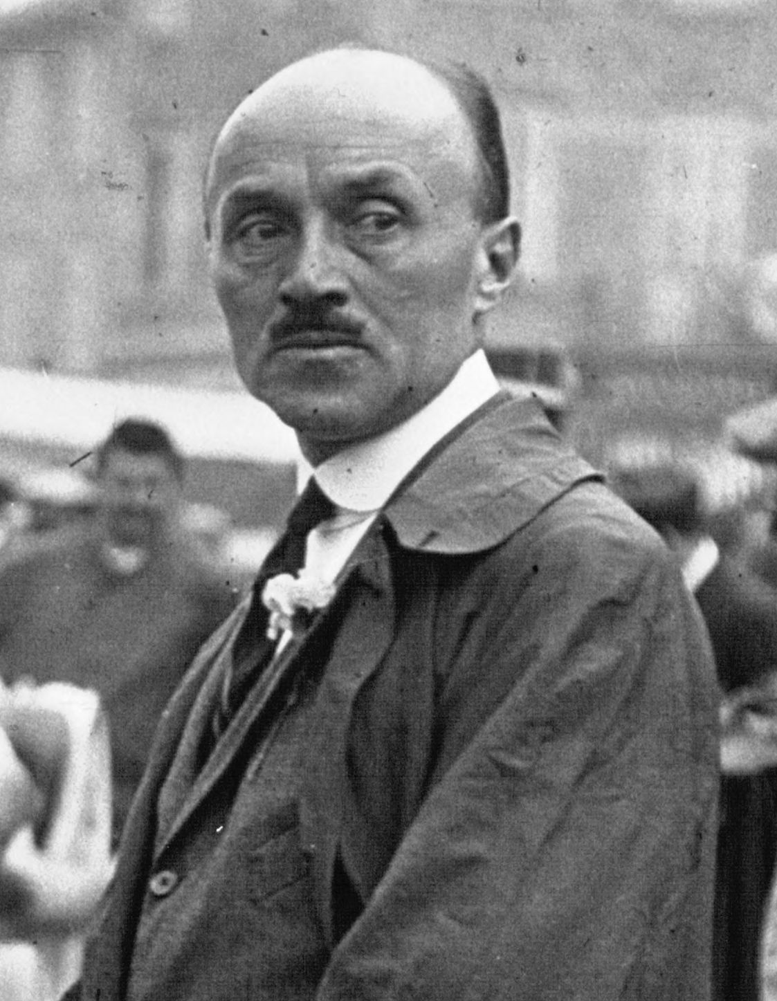 Fernand Charron at the 1914 French Grand Prix, standing next to the Alda (No.29) built by Charron, Girardot et Voigt. It was driven by Maurice Tabuteau but crashed during the race.